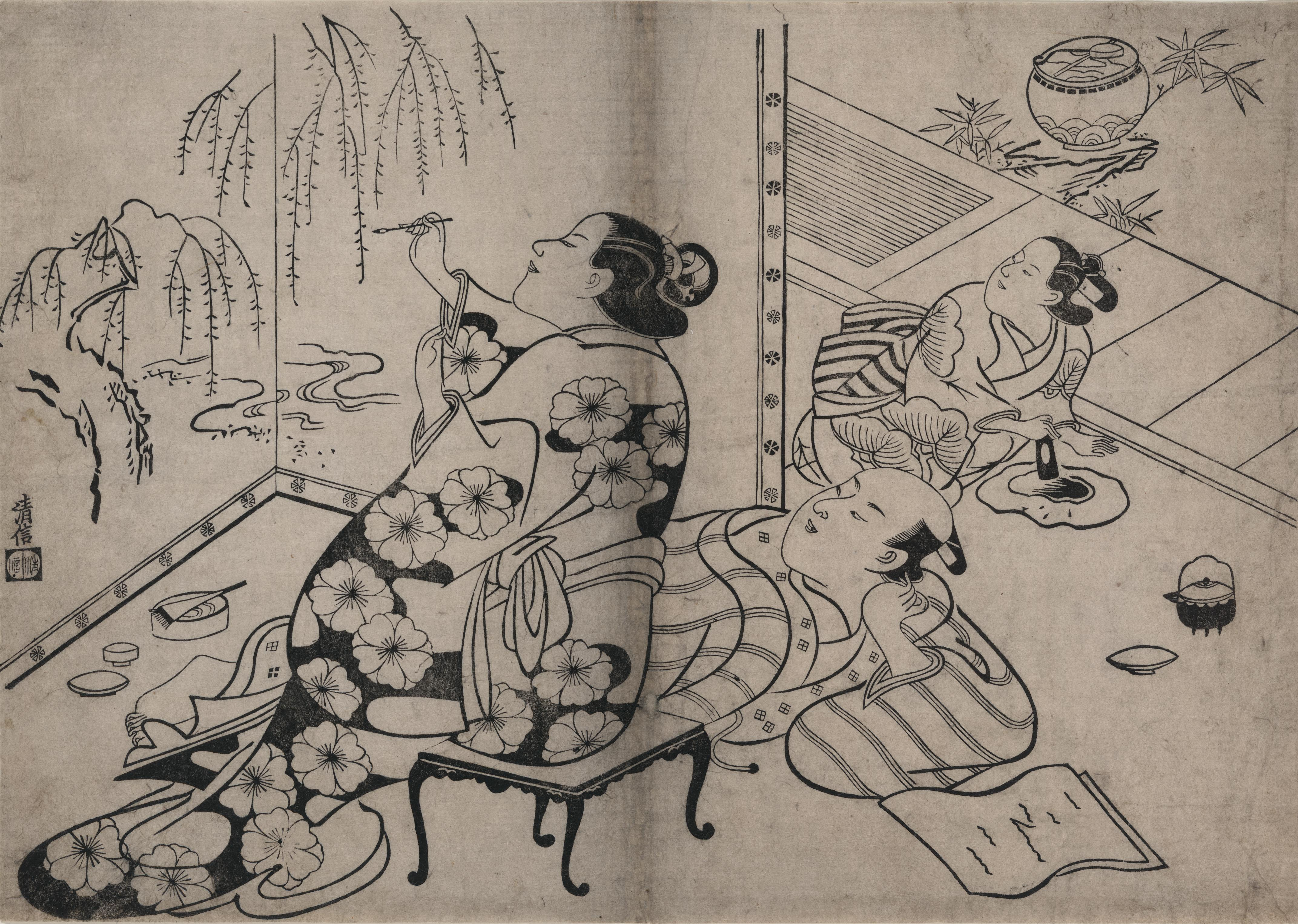 "Courtesan painting a screen". 18th century Ukiyo-e woodcut. Woman painting a screen while a reclining man watches and a woman in the background mixes paint or ink. Title and other information based on entry for item in exhibition catalog. Exhibited: "The Floating world of Ukiyo-e: shadows, dreams and substances," organized by the Library of Congress, 2001.